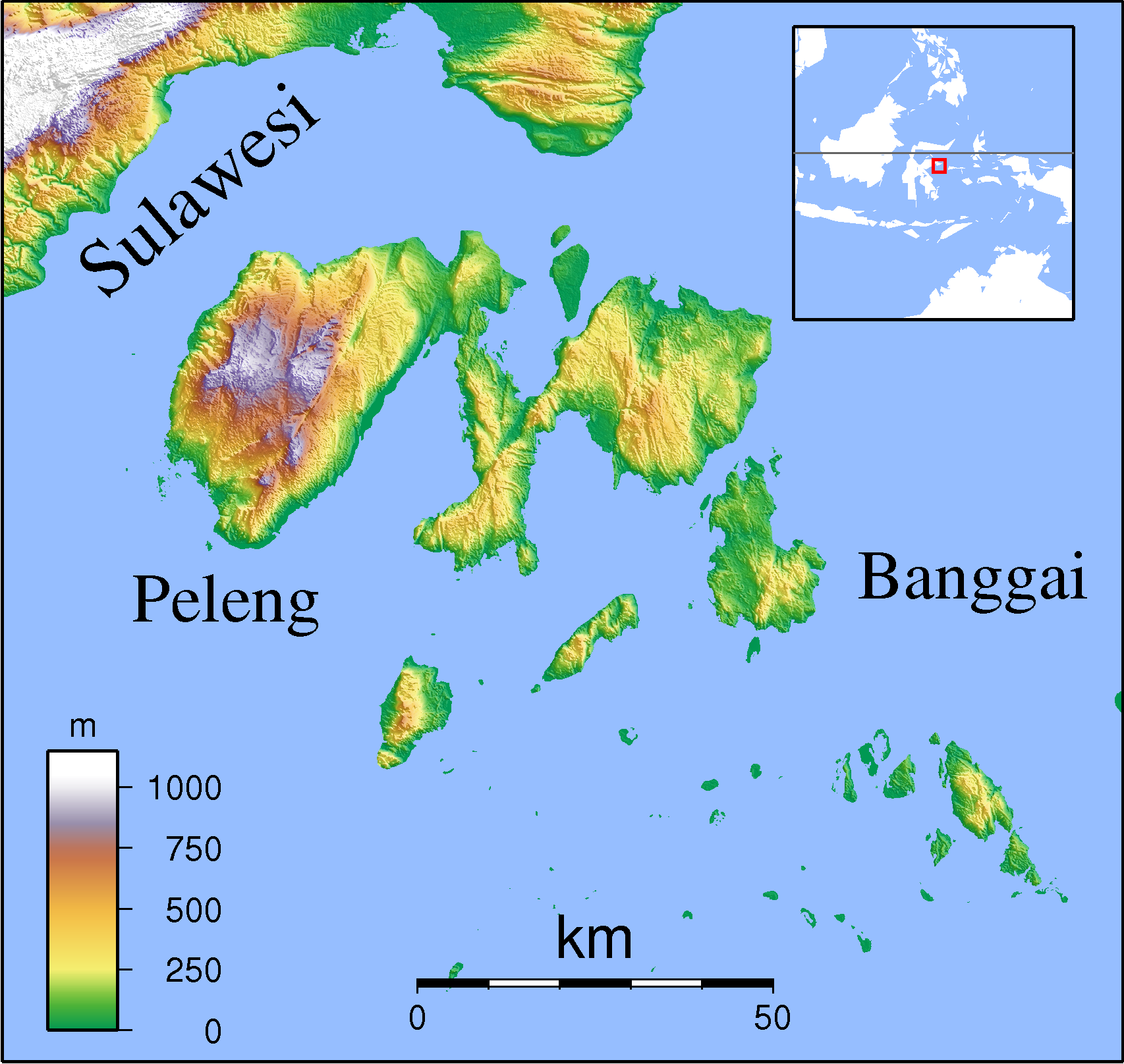 Locator map for Banggai Islands. Limits: 122:35/-2:20/124:00/-0:50